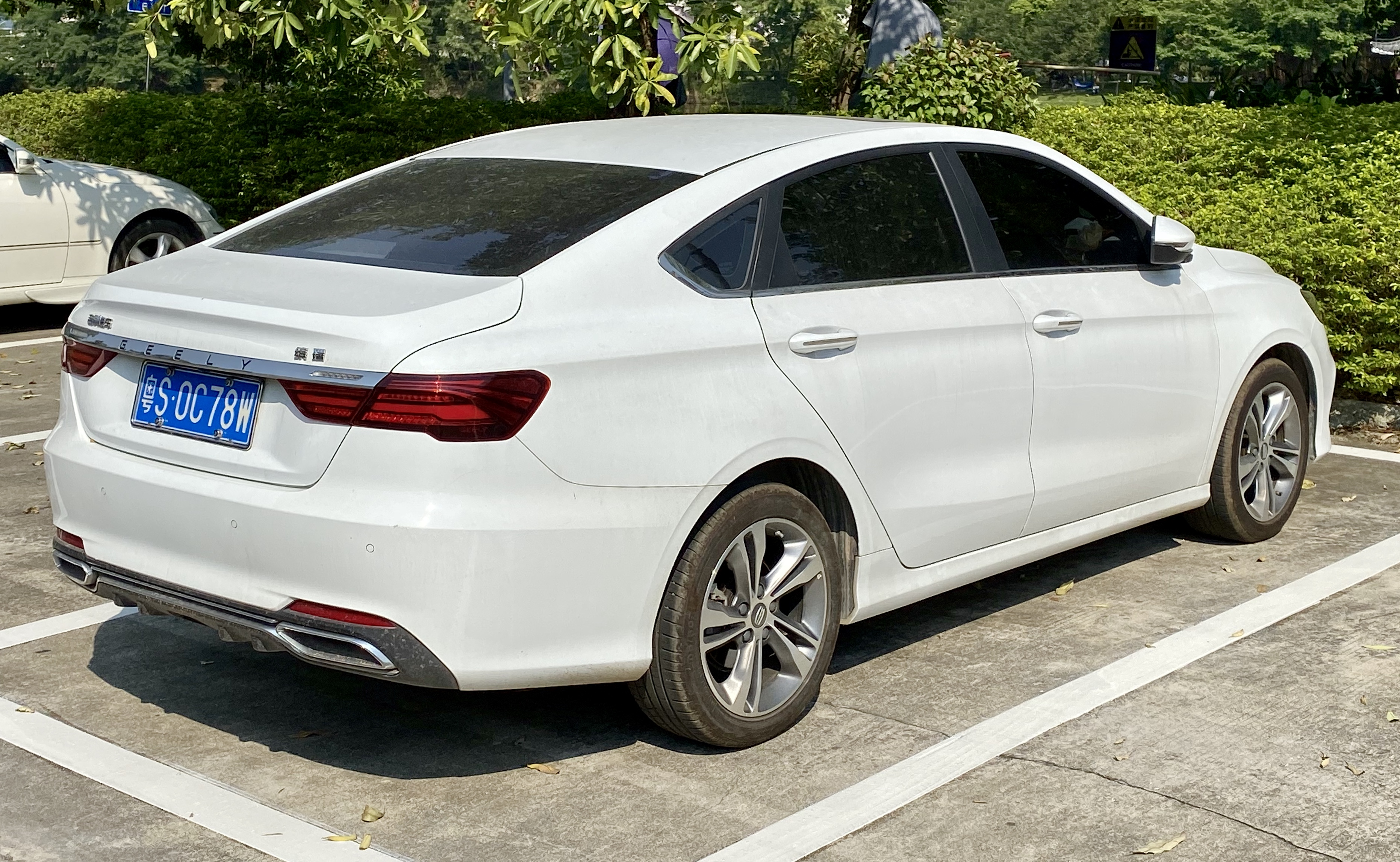 A 2018 Geely Binrui photographed in Dongguan, Guangdong province, China. 中文（中国大陆）: 一辆2018年的吉利缤瑞，拍摄于中国广东省东莞市。